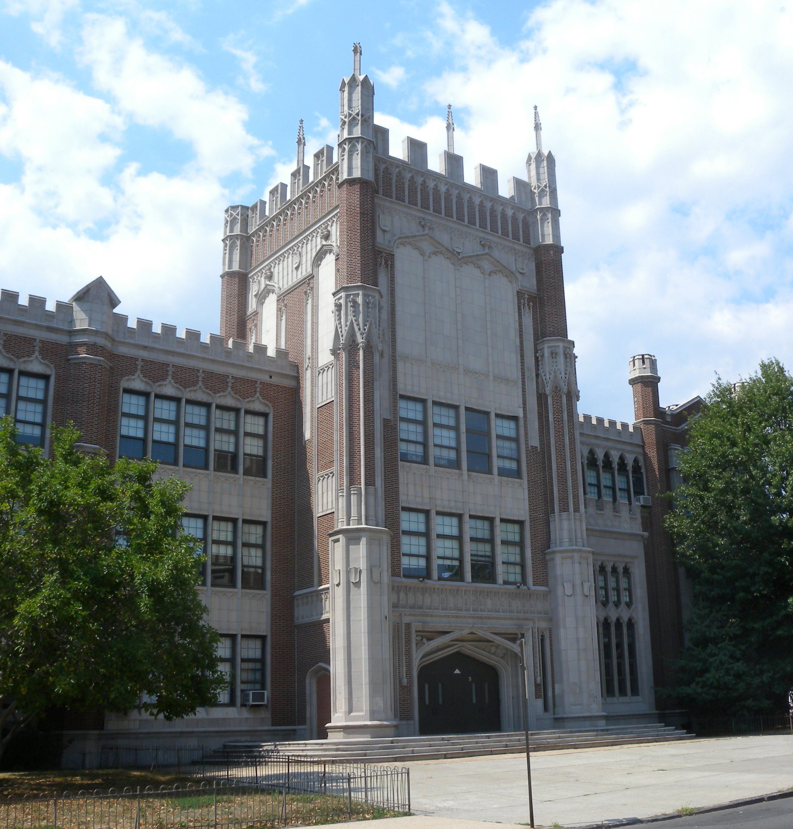 Looking north from Avenue A at Bayonne Junior High on a sunny early afternoon.